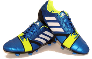 adidas nitrocharge 1.0 in FG first released in May 2013